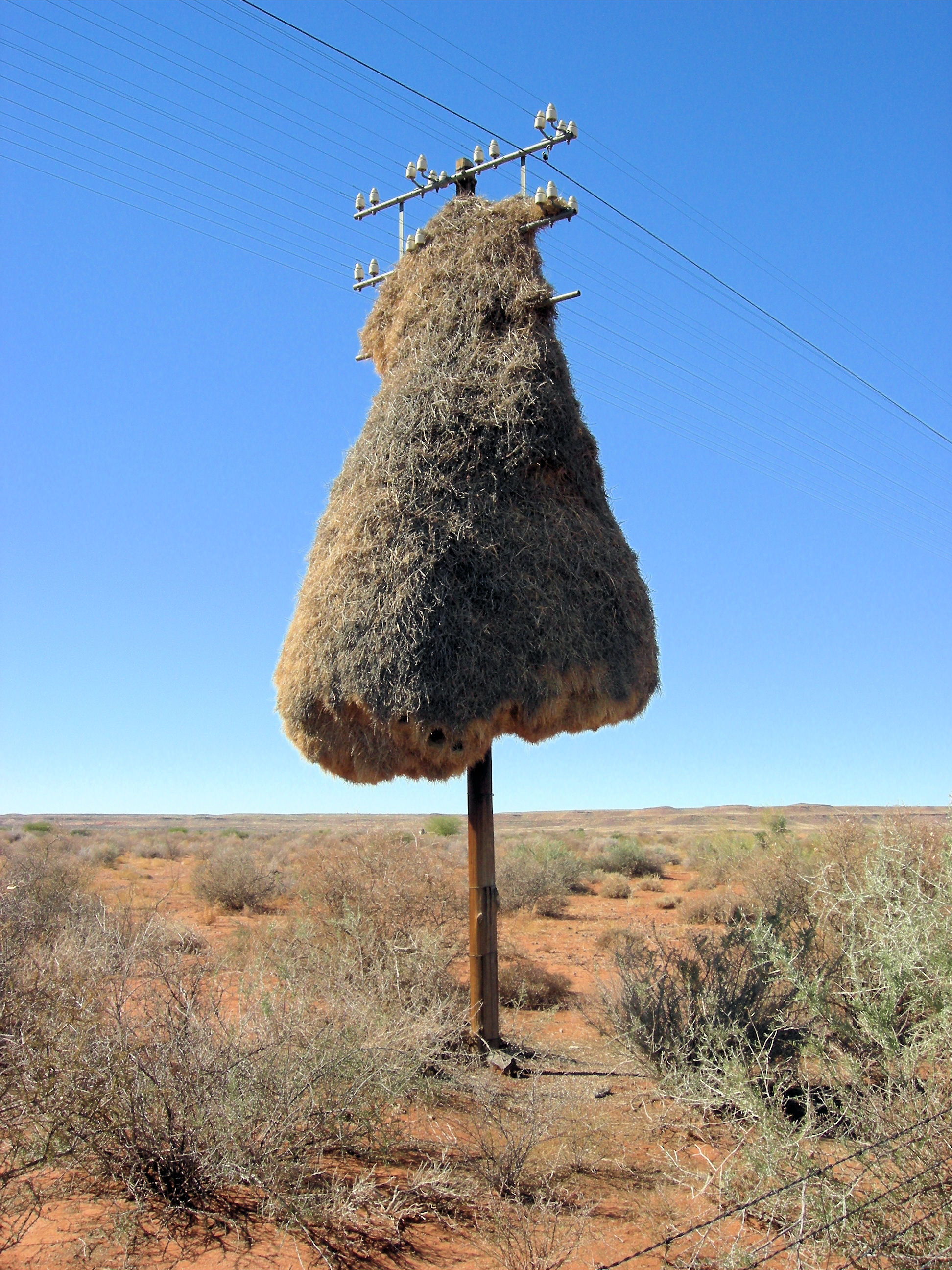 Weaver Bird (Ploceidae) nests in Kgalagadi Transfrontier Park